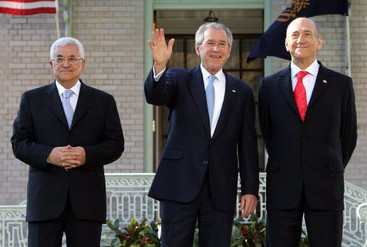 President George W. Bush waves to photographers as he stands with Palestinian President Mahmoud Abbas, left, and Prime Minister Ehud Olmert Tuesday, Nov. 27, 2007, at the Annapolis Conference in Annapolis, Maryland.